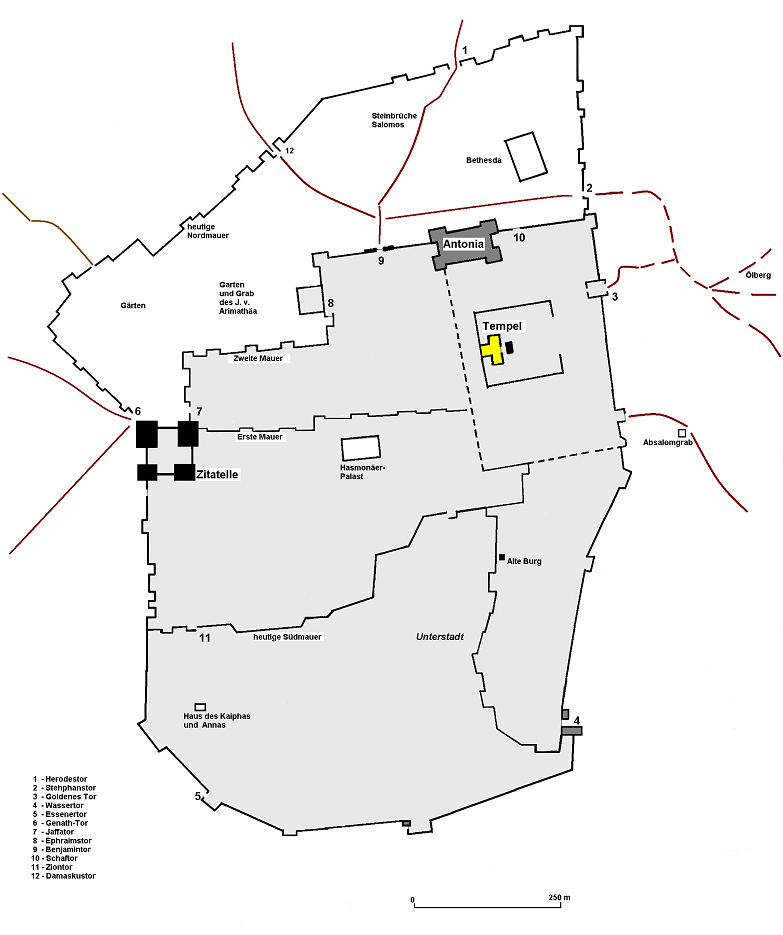 Jerusalem in the 1st century CE